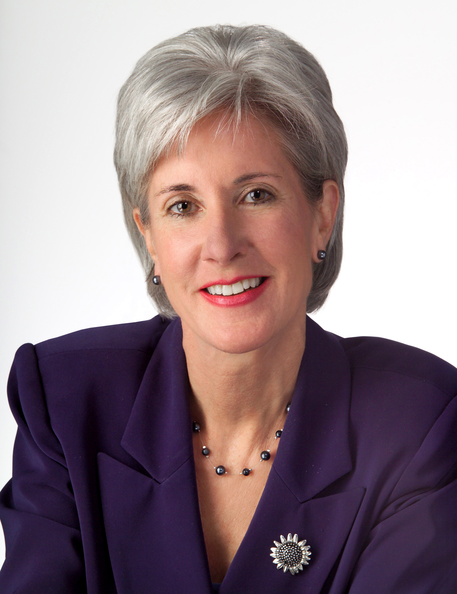 Official portrait of Secretary Sebelius